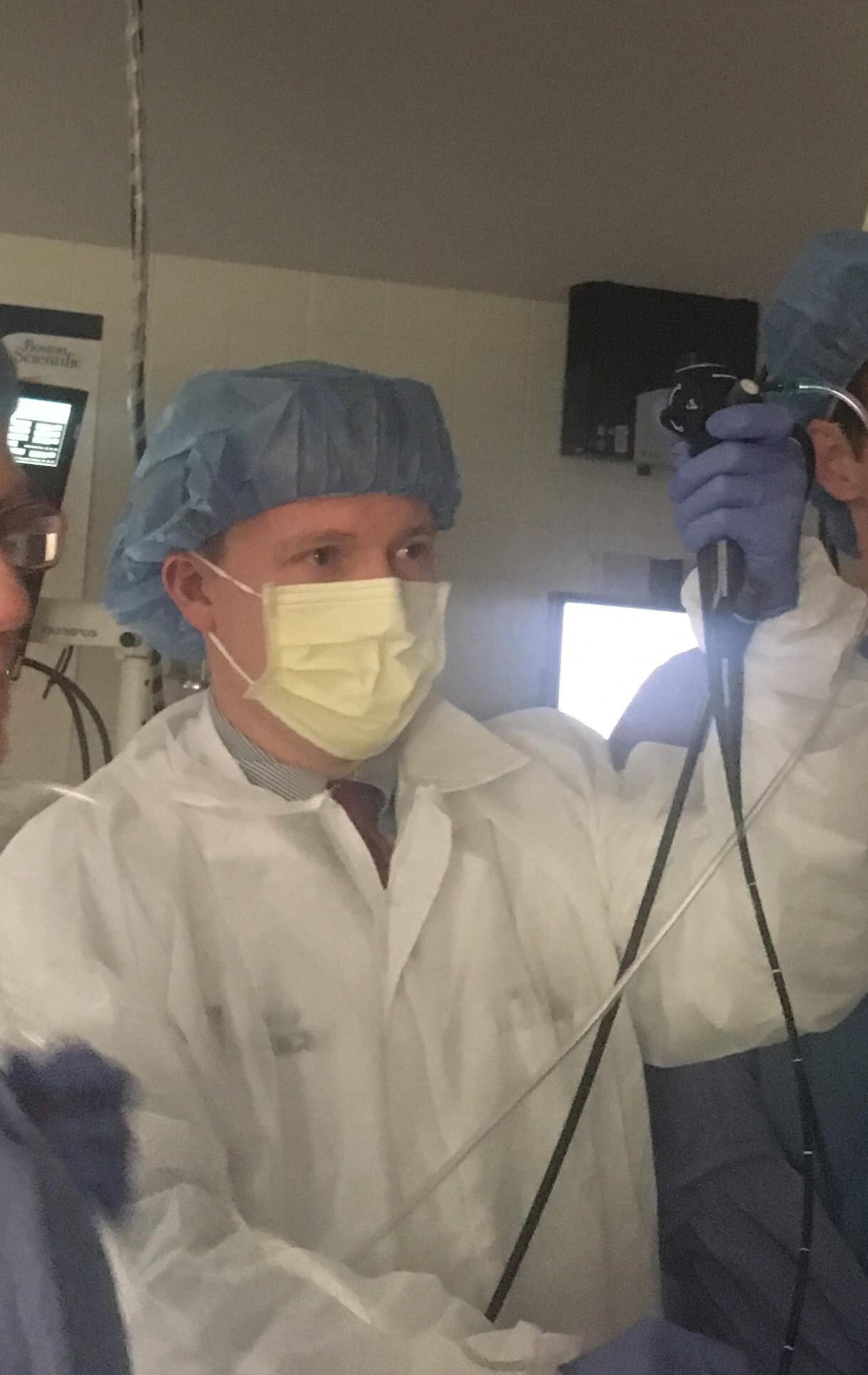 Bronchoscopy